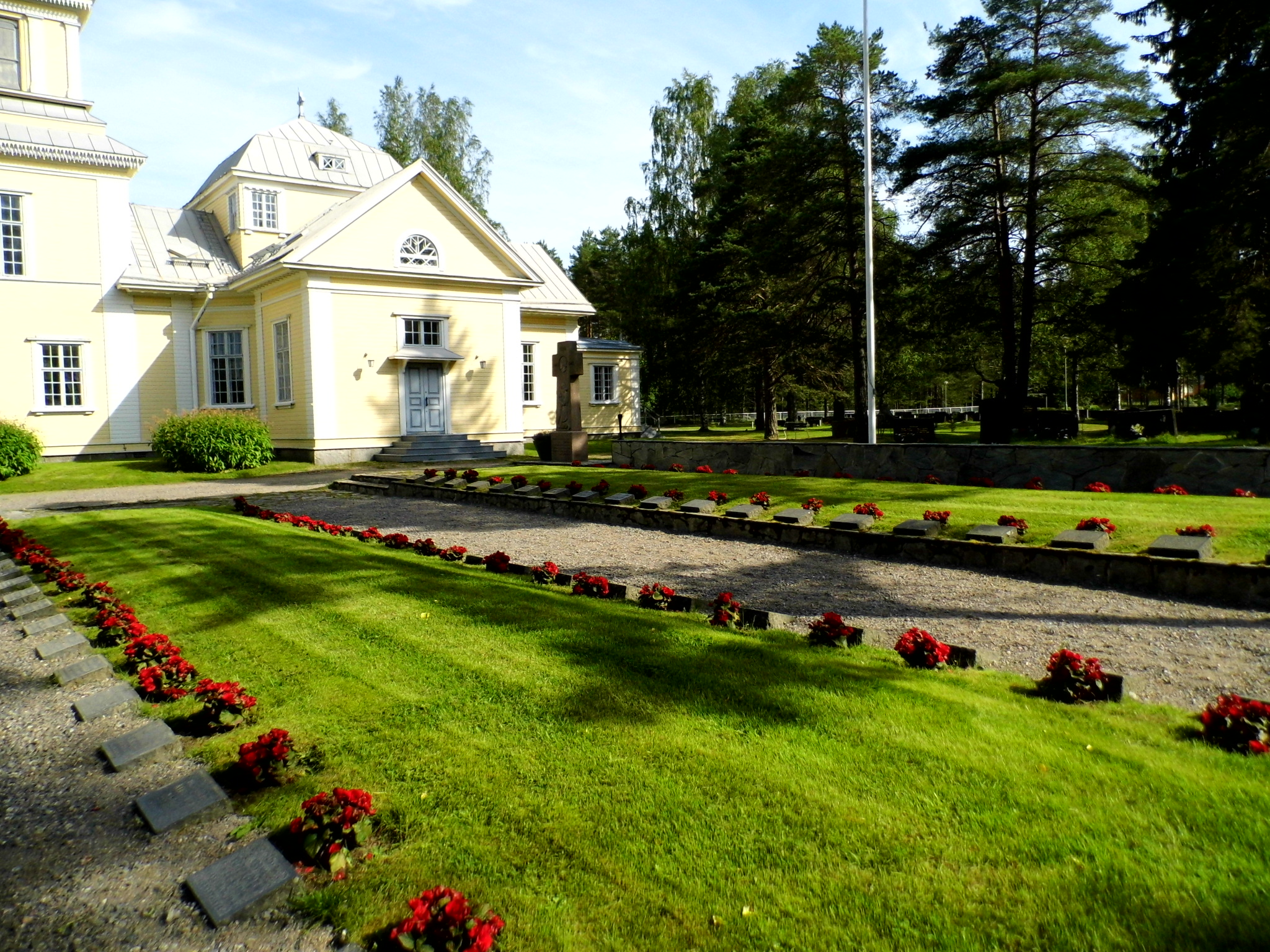 Military cemetary at church in Kinnula, Finland